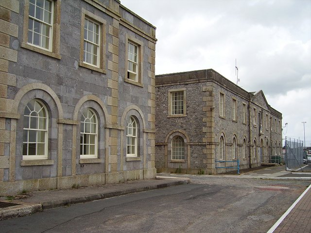 Customs House. Customs House, Pembroke Dockyard.